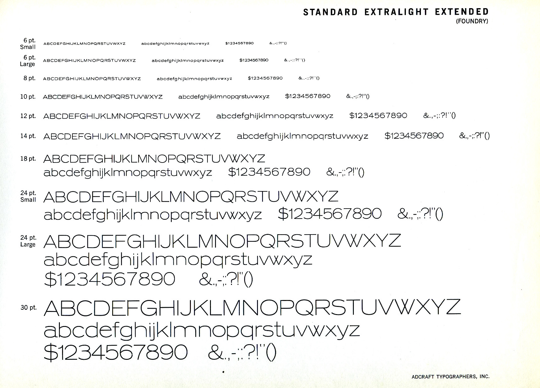 Specimen of metal Akzidenz-Grotesk. This typeface was sold as “Standard” in the United States.